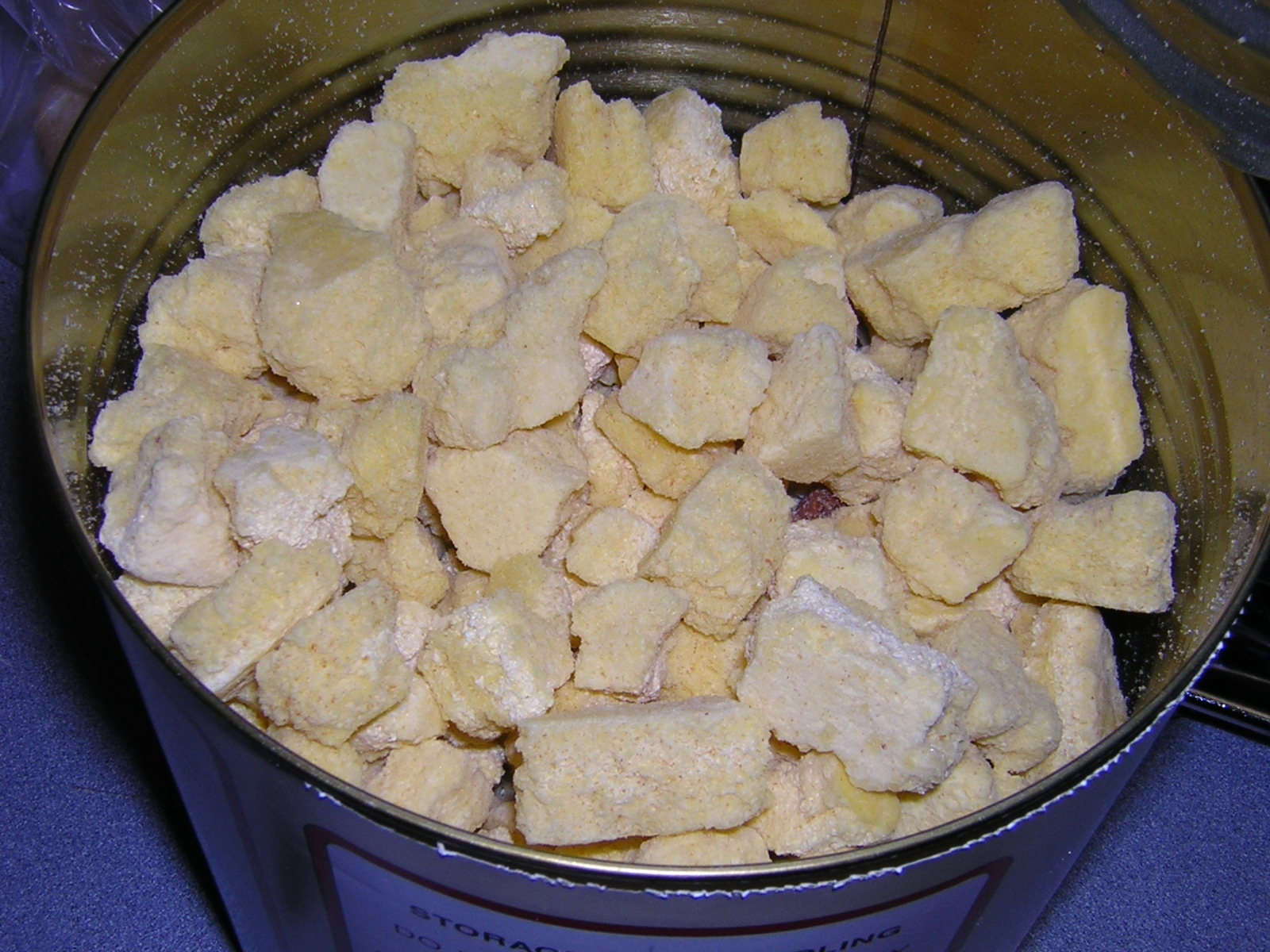 Mountain House Freeze Dried eggs with bacon. Shelf stable for 25 years while sealed and kept in cool, dry, conditions.